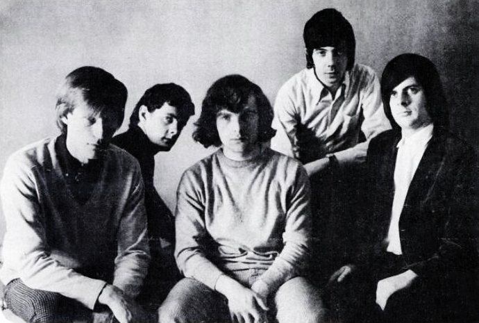 Trade ad for Them's singles "Here Comes The Night" and "Gloria".To better adapt it to his respective Wikipedia article, the ad was cropped and cleaned in a graphics editing program before upload. The original can be viewed at the source below.